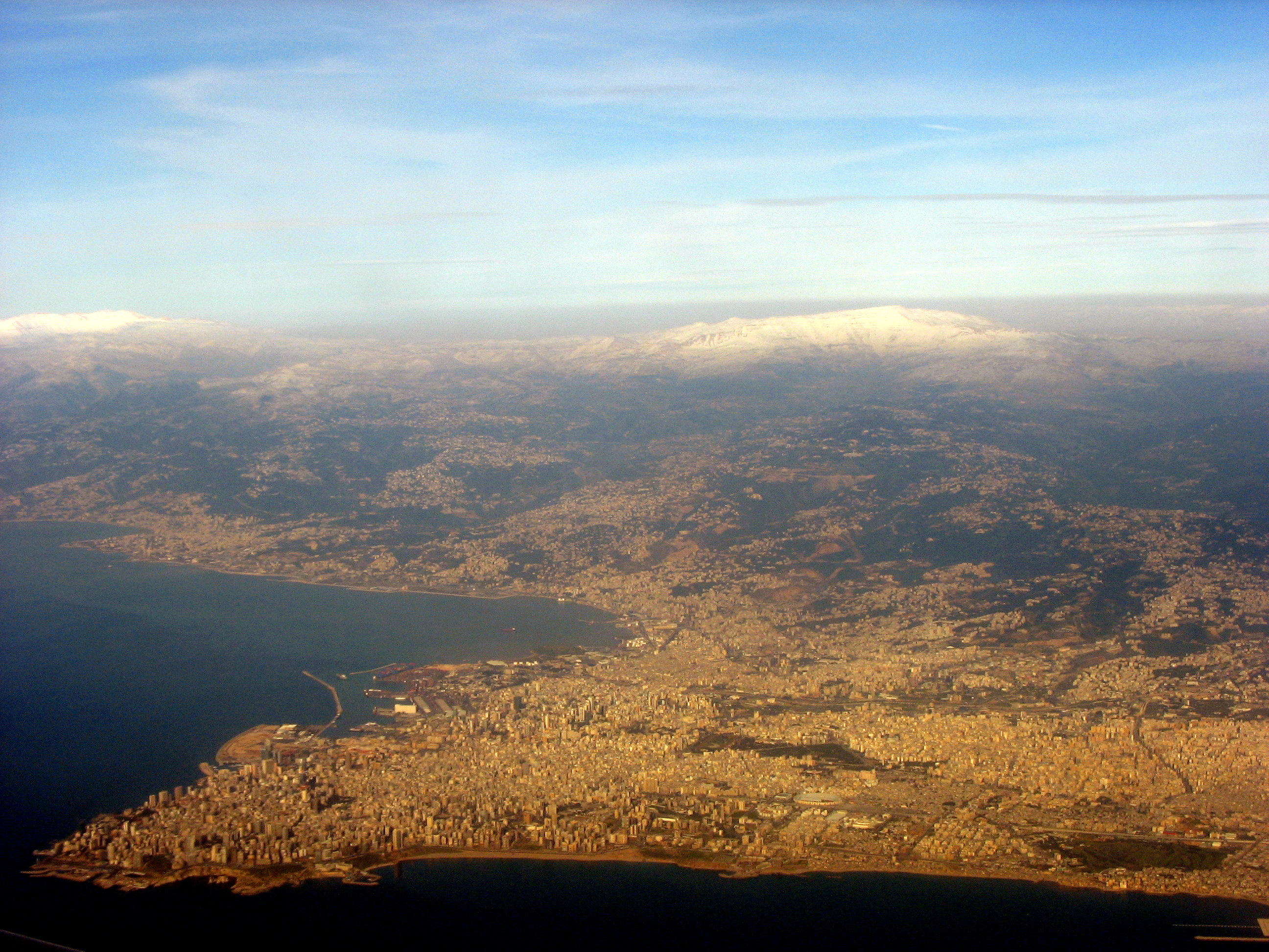 I took from the Airplane window on March 18. It was a little hazy, but i guess it's ok. I used the old (but sweet) Canon A610 Compact camera.